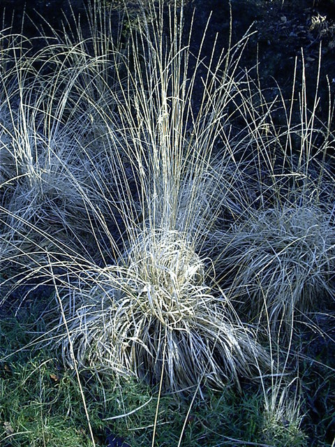 Molinia in winter on Copythorne Common